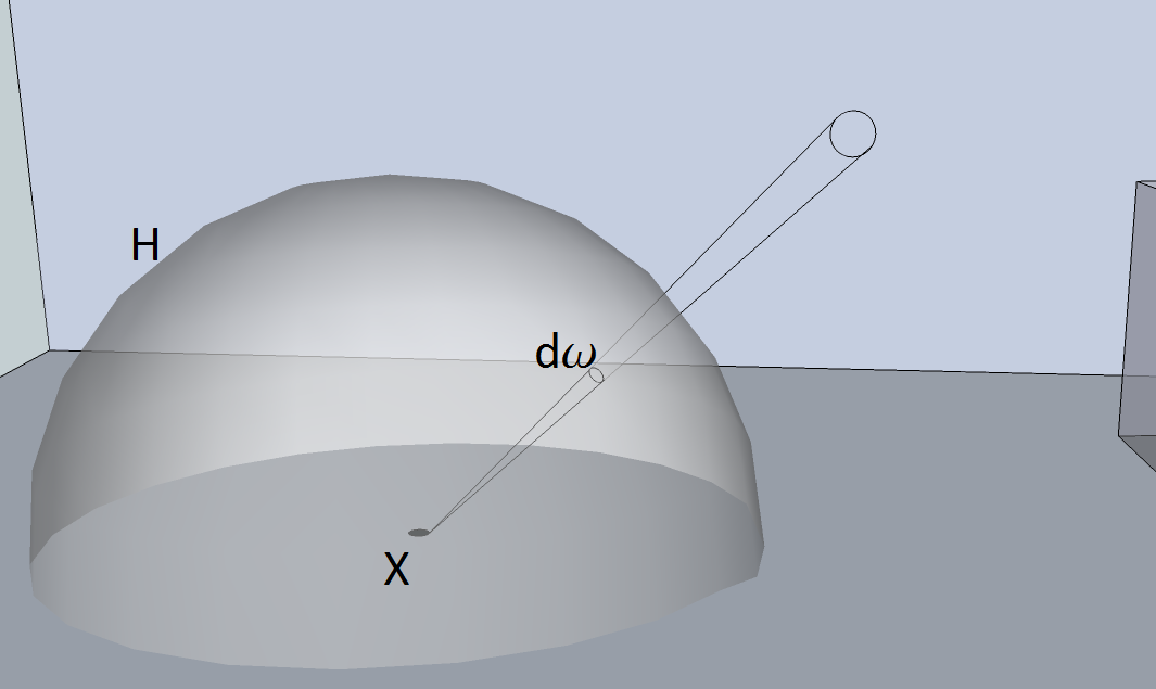 Rendering equation in dw form.